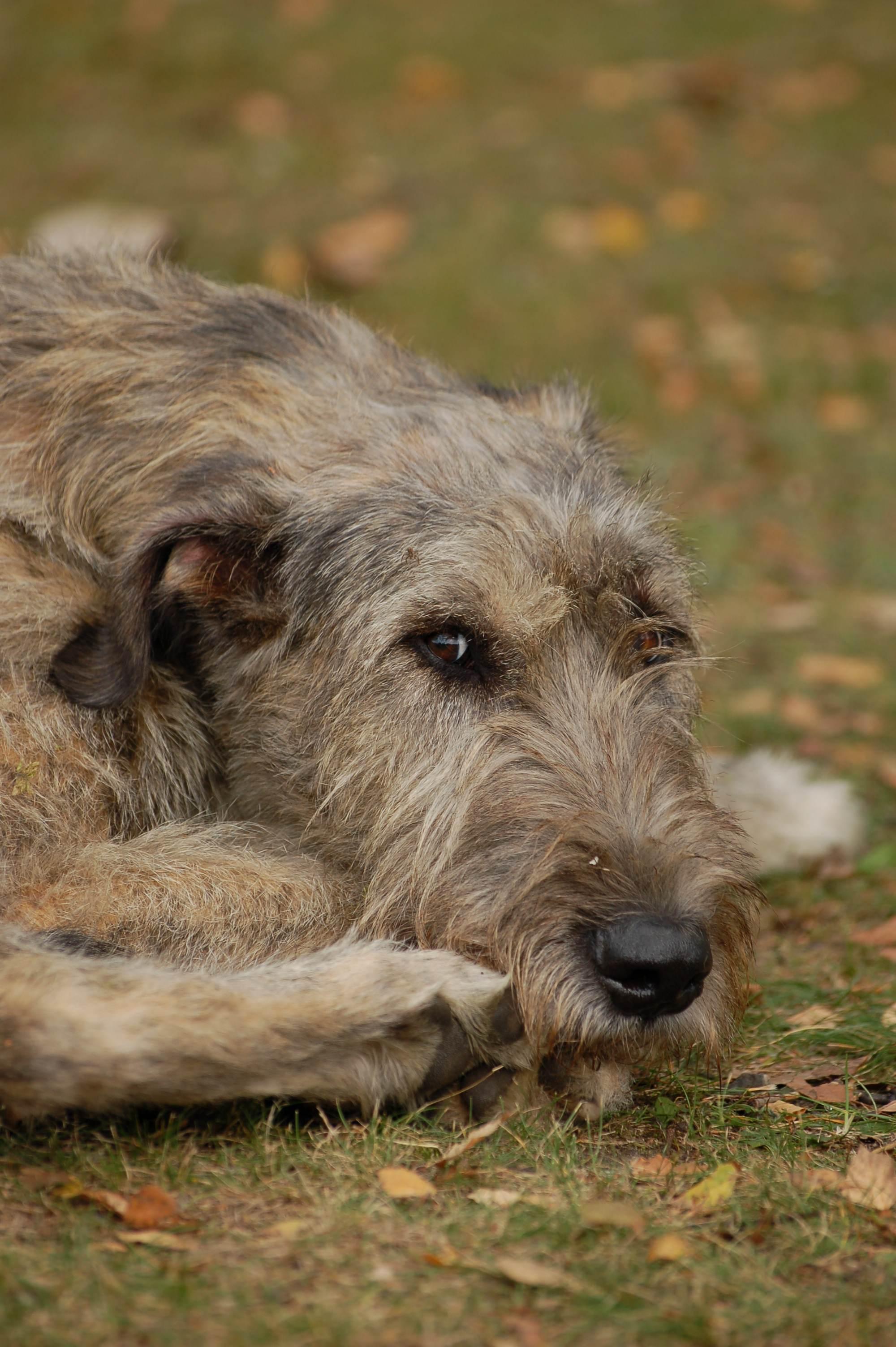 Irish Wolfhound